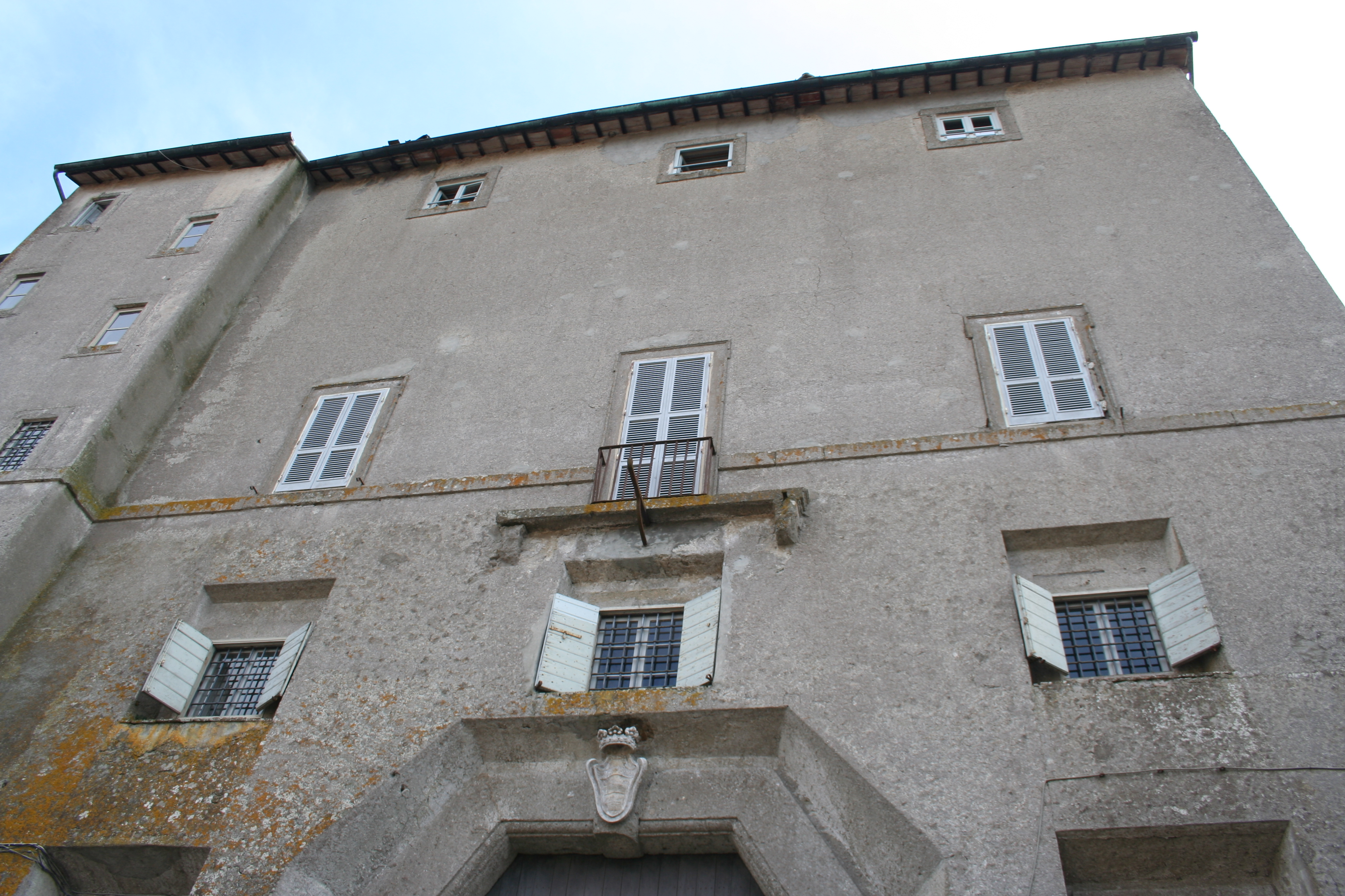 Palazzo Patrizi